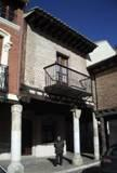 Villa y Tierra of Saldaña's City Council from 19th Century